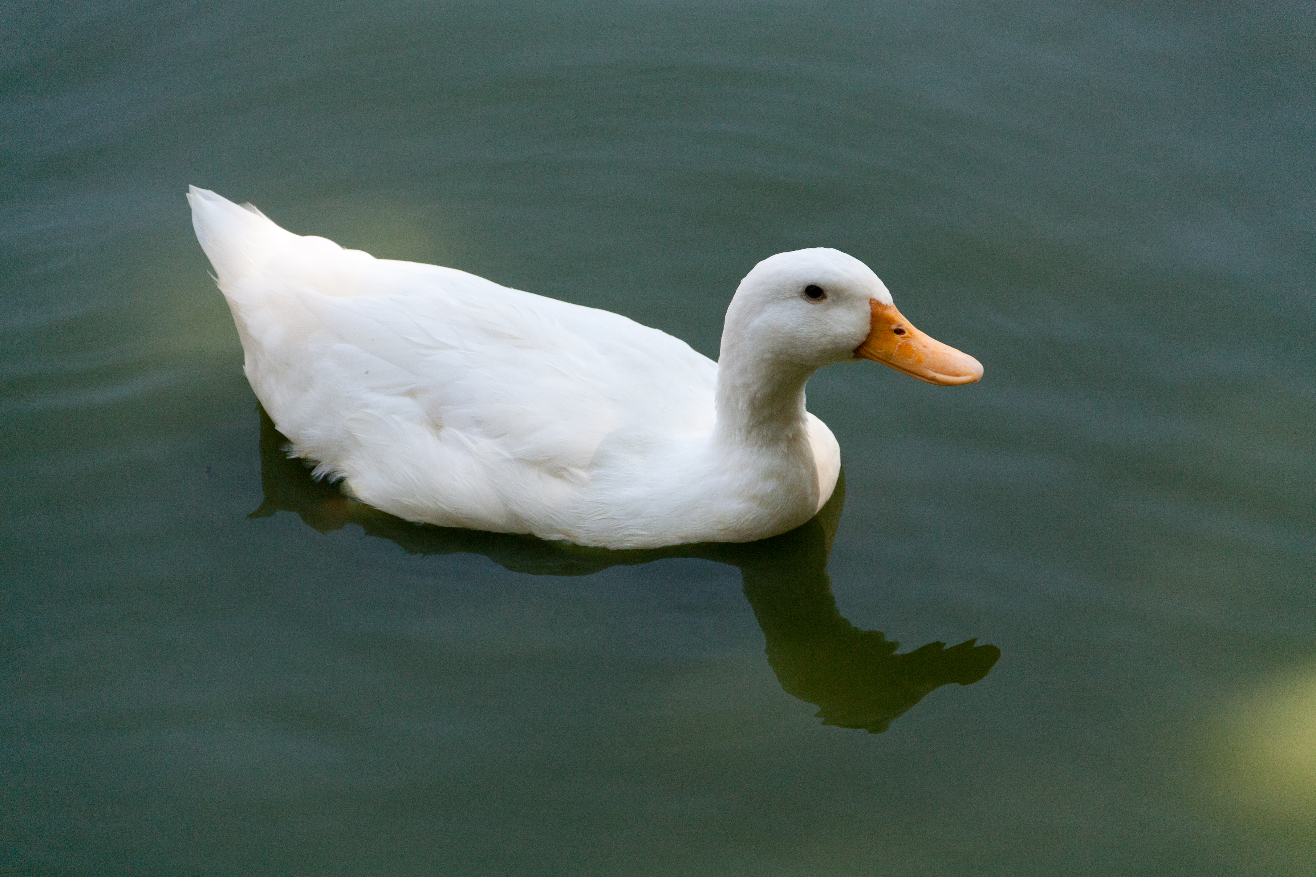 Pekin duck, Agam Hay, Yir'on, Israel